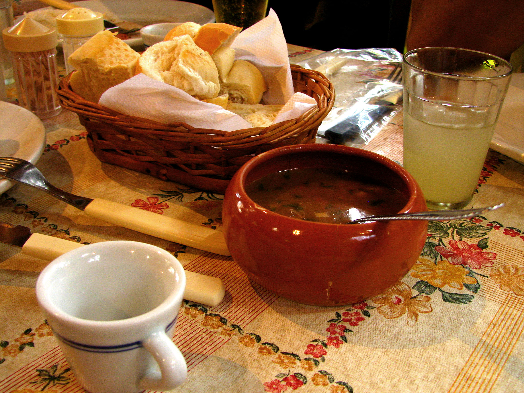 Food from the Brazilian cuisine.